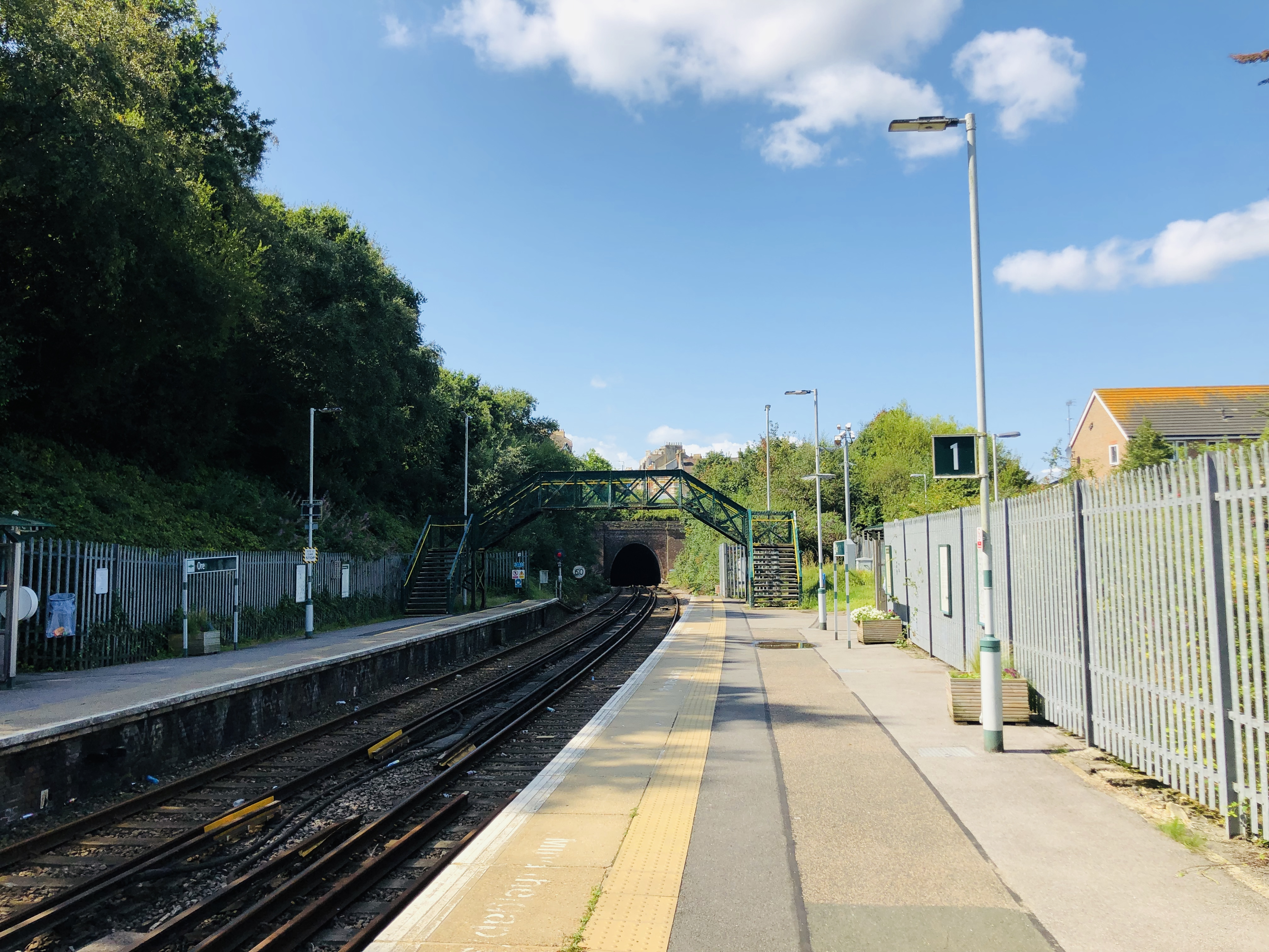 The platforms at Ore railway station, looking southwest towards Hastings and Eastbourne. Picture taken from the Ashford-bound platform 1.